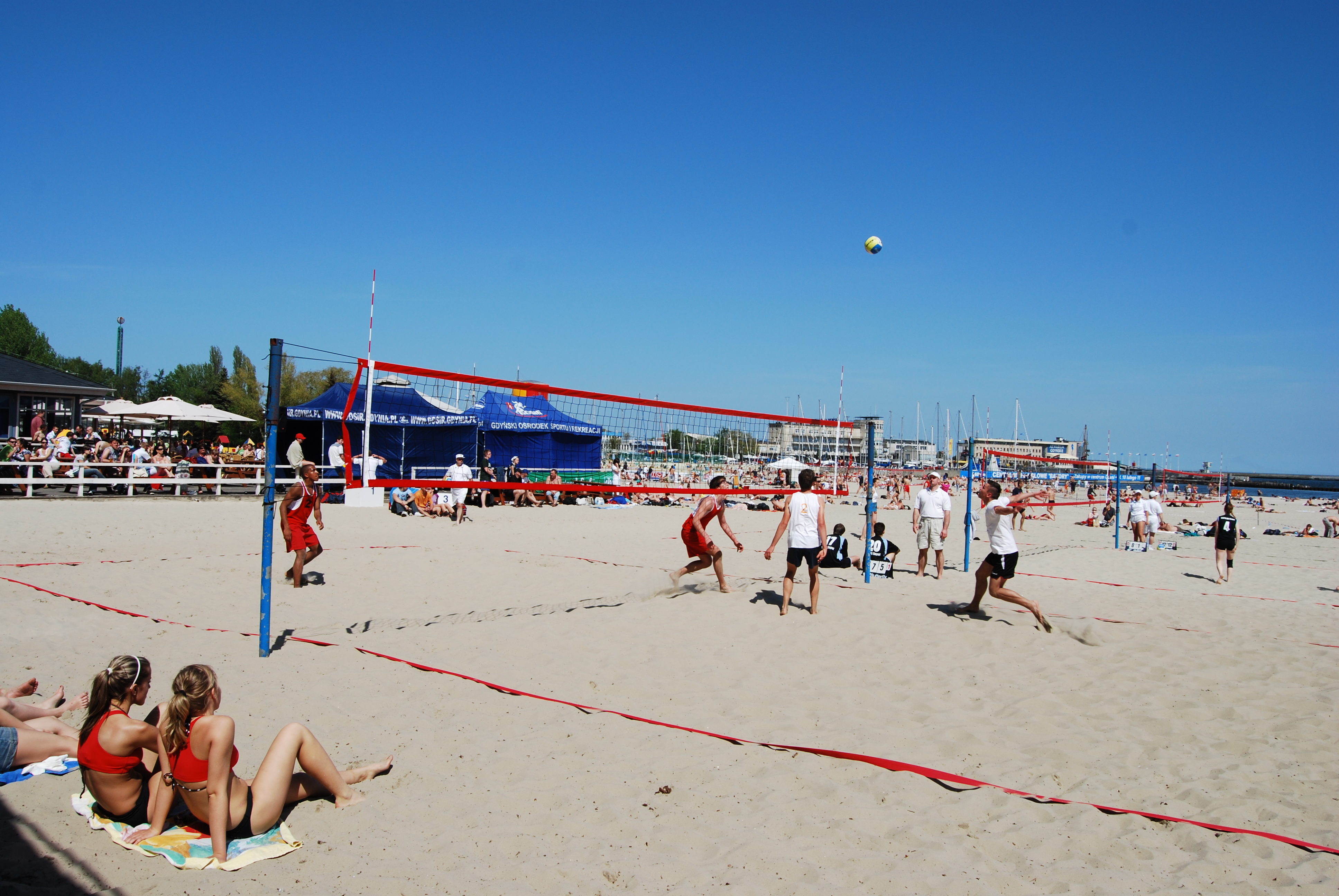 Beach Volleyball in Gdynia, Poland